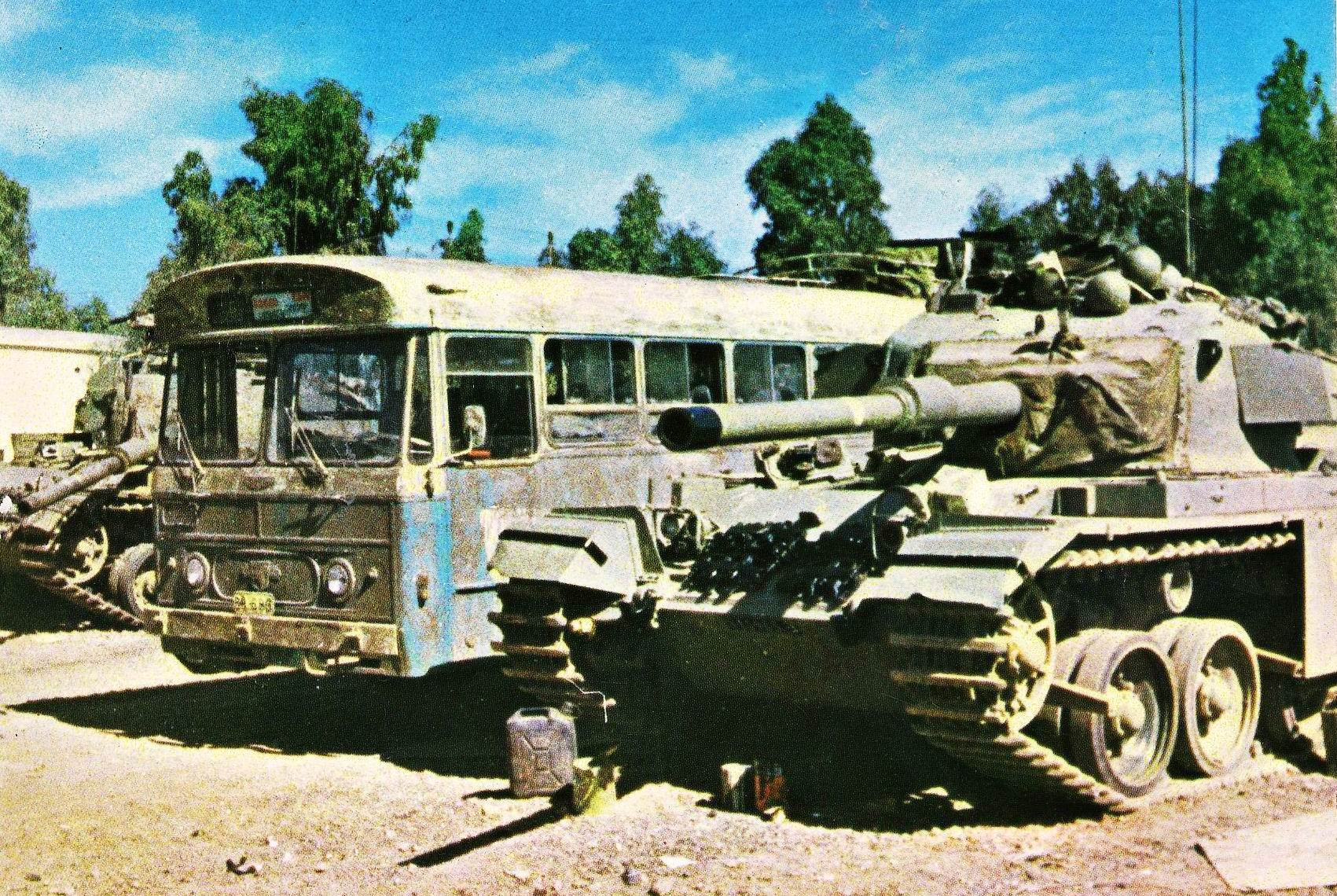 1973 Arab-Israel conflict, Egged bus between Israeli tanks, Golan Heights.